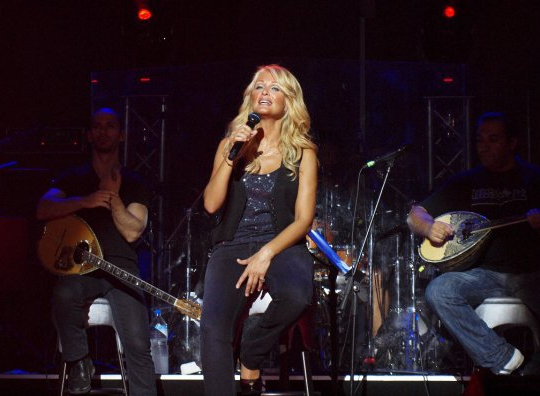 Natassa Theodoridou